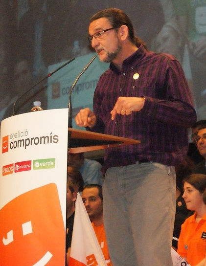 Juan Ponce, from Compromís-Verds